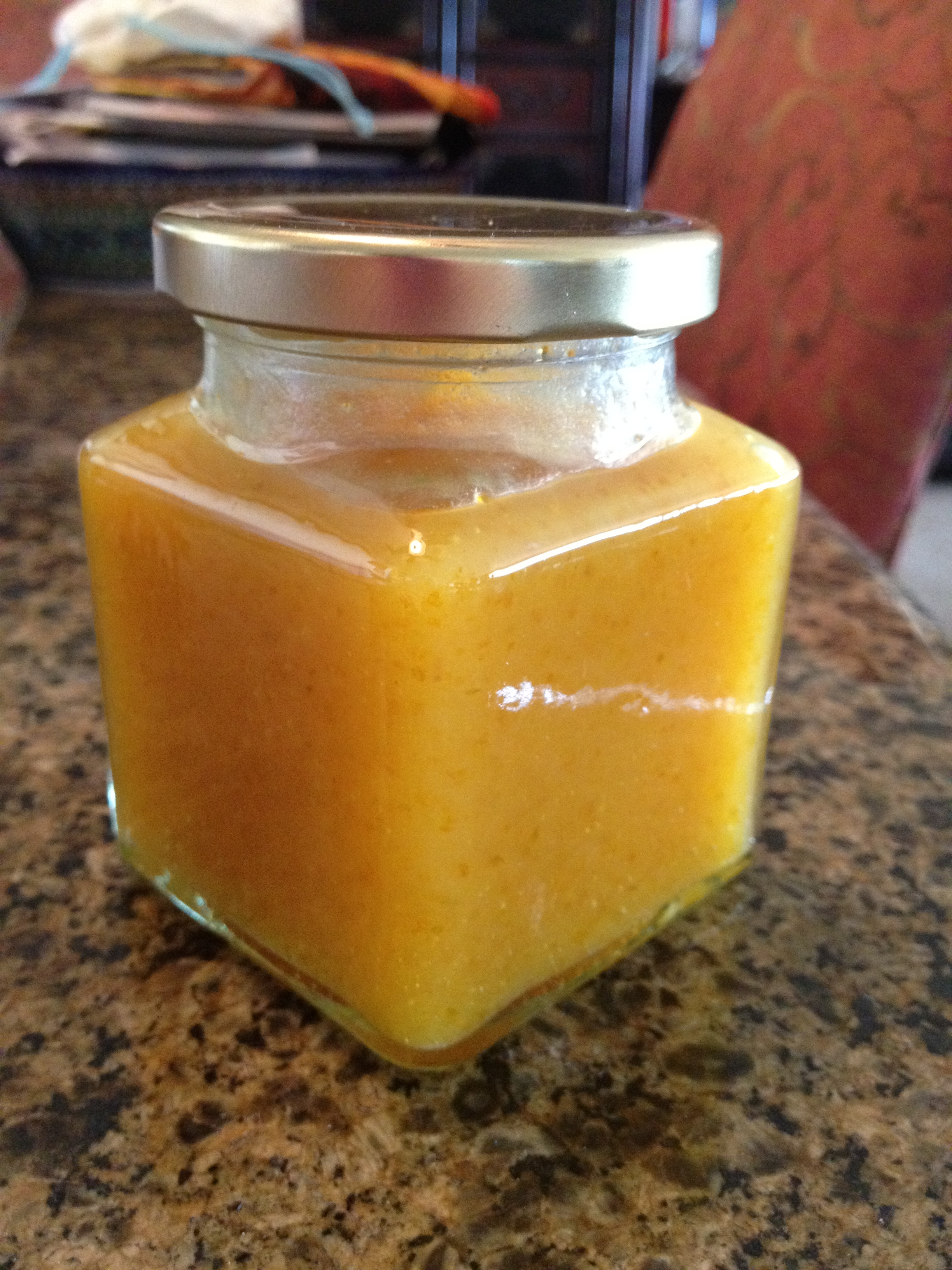 Calamondin Coulis